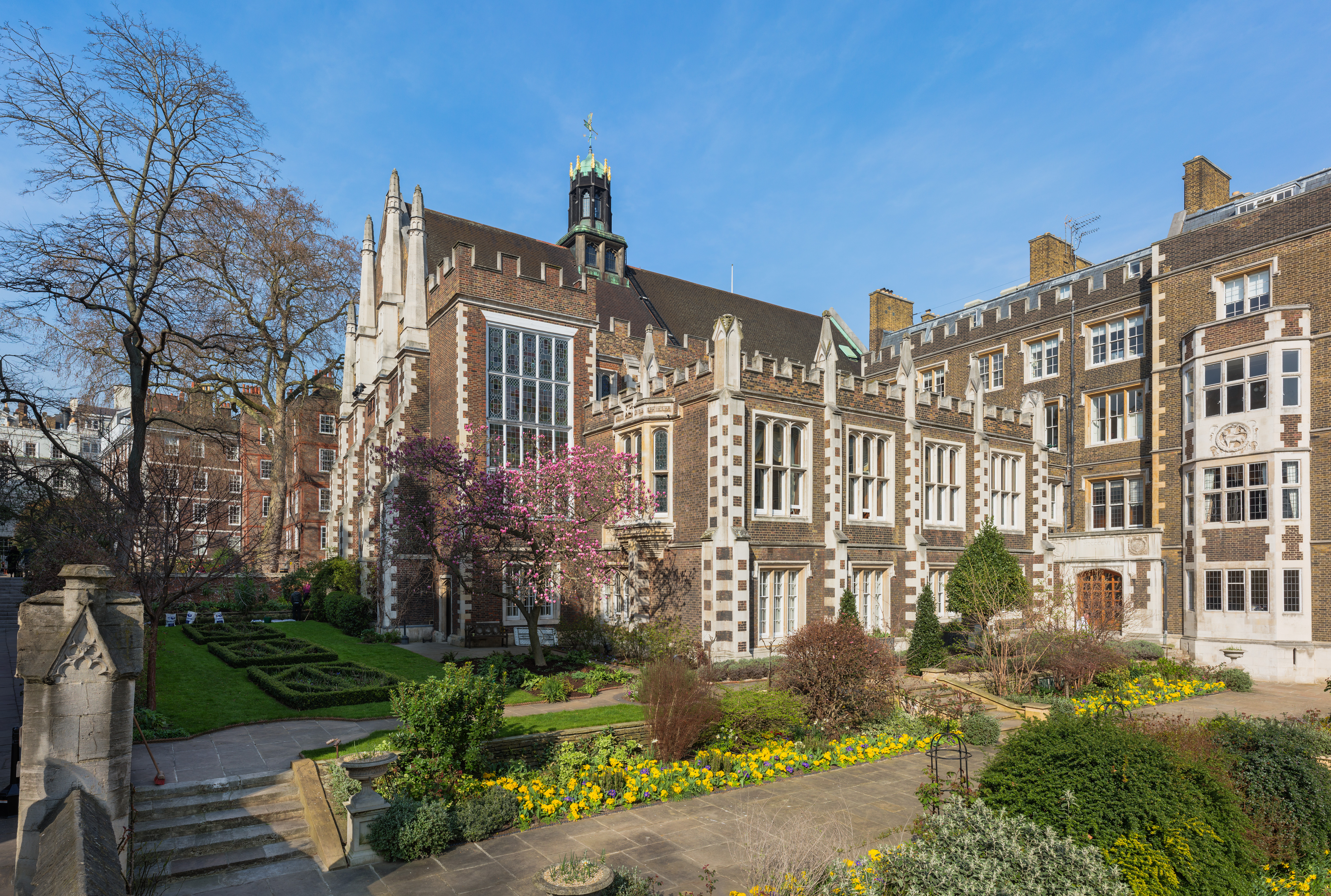 Middle Temple Hall as viewed from the south.